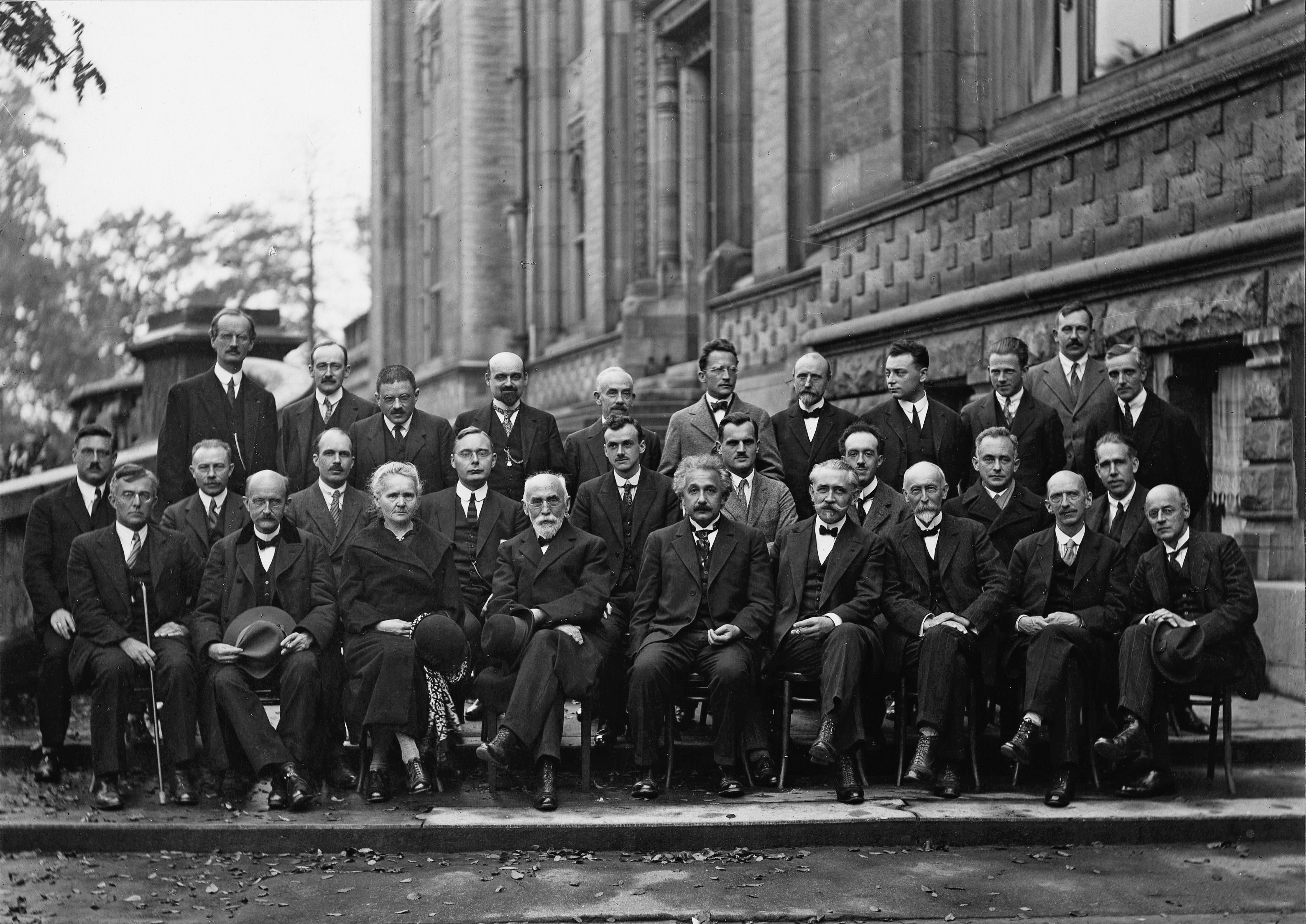 1927 Solvay Conference on Quantum Mechanics. Photograph by Benjamin Couprie, Institut International de Physique Solvay, Brussels, Belgium. From back to front and from left to right : Auguste Piccard, Émile Henriot, Paul Ehrenfest, Édouard Herzen, Théophile de Donder, Erwin Schrödinger, Jules-Émile Verschaffelt, Wolfgang Pauli, Werner Heisenberg, Ralph Howard Fowler, Léon Brillouin, Peter Debye, Martin Knudsen, William Lawrence Bragg, Hendrik Anthony Kramers, Paul Dirac, Arthur Compton, Louis de Broglie, Max Born, Niels Bohr, Irving Langmuir, Max Planck, Marie Skłodowska Curie, Hendrik Lorentz, Albert Einstein, Paul Langevin, Charles Eugène Guye, Charles Thomson Rees Wilson, Owen Willans Richardson.